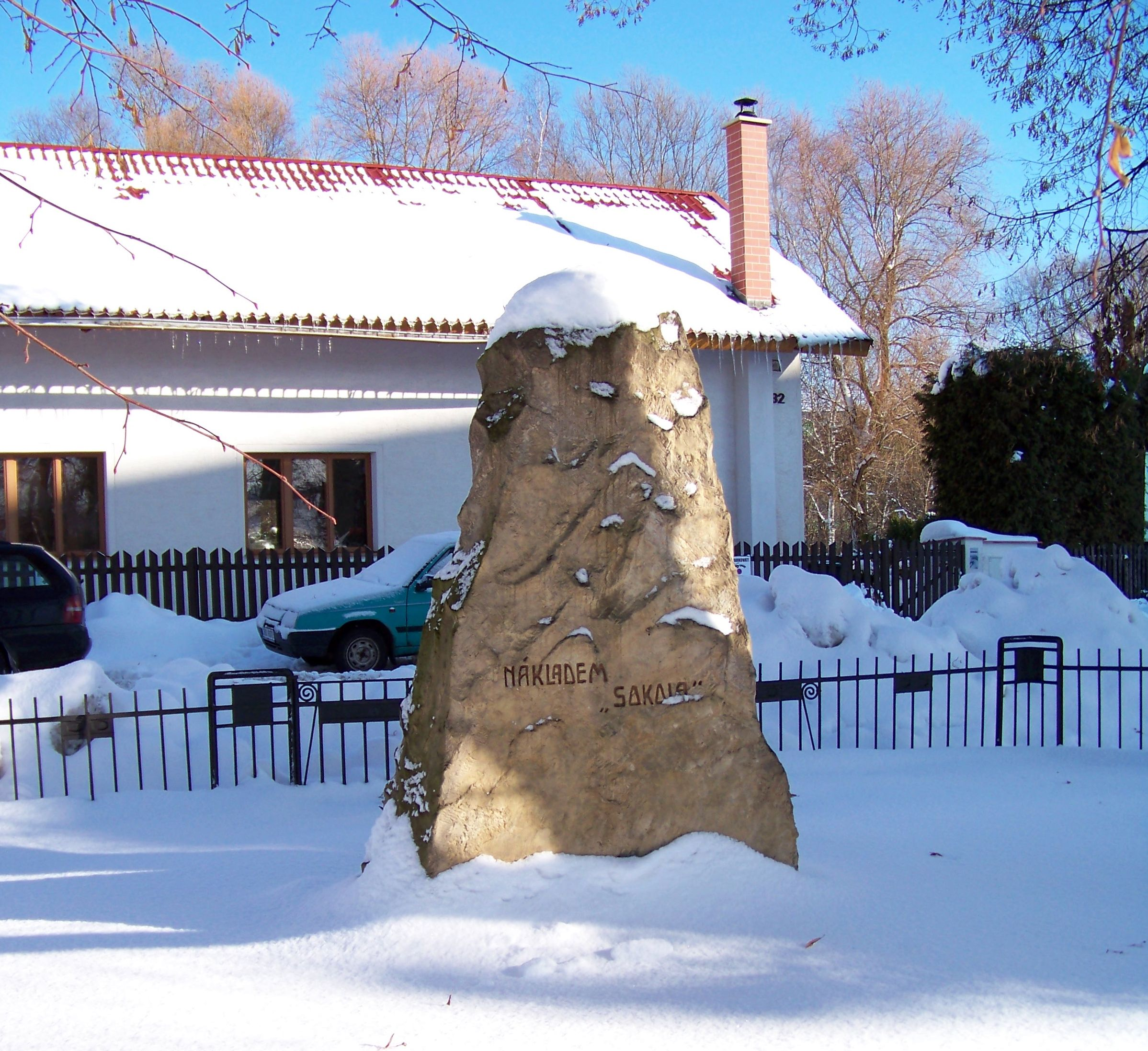 Hradec Králové-Třebeš, the Czech Republic. Crossroad of K Labi and Machkova streets. Sokol monument.